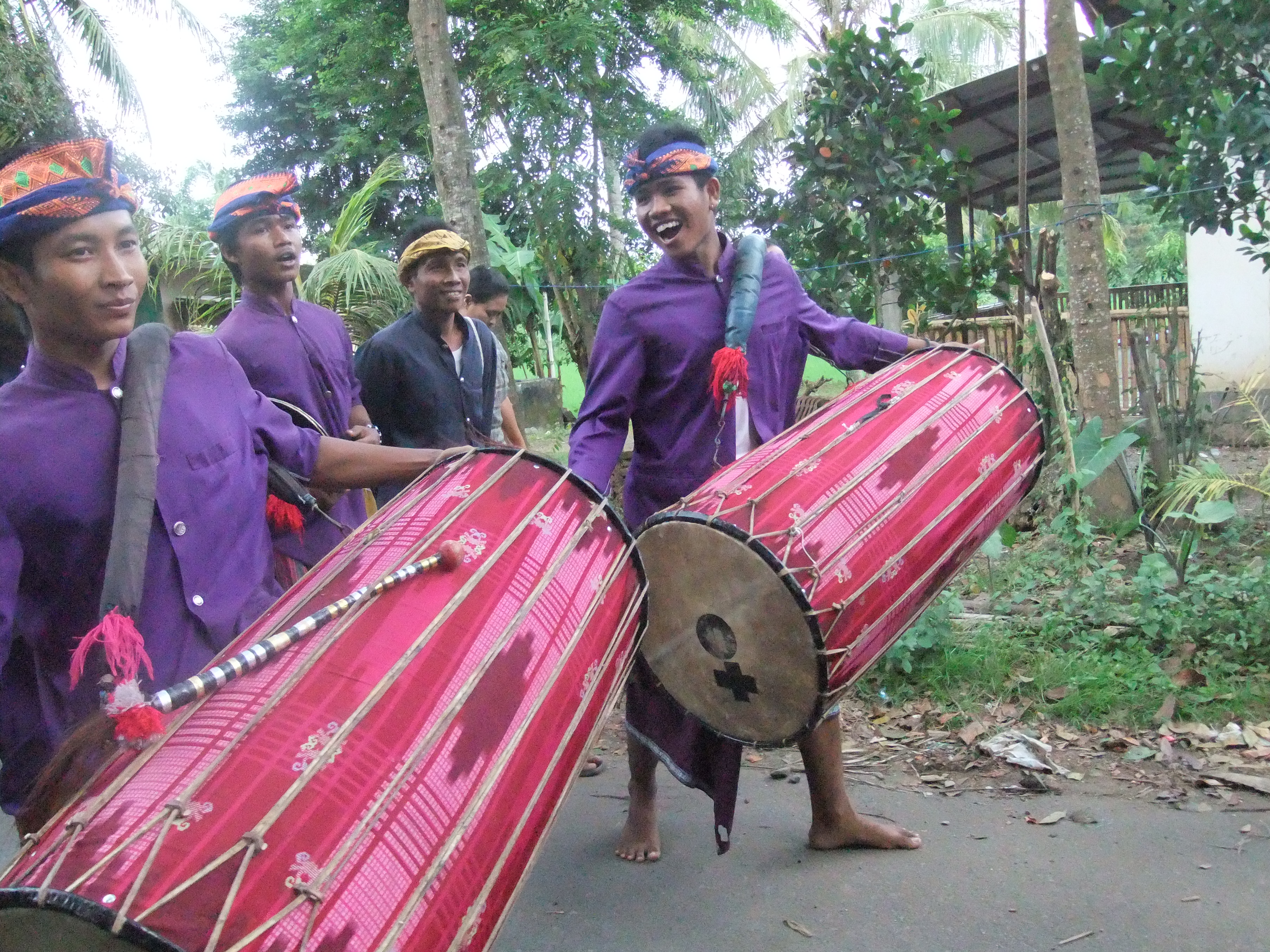 Gendang Beleq, Lombok, Indonesia